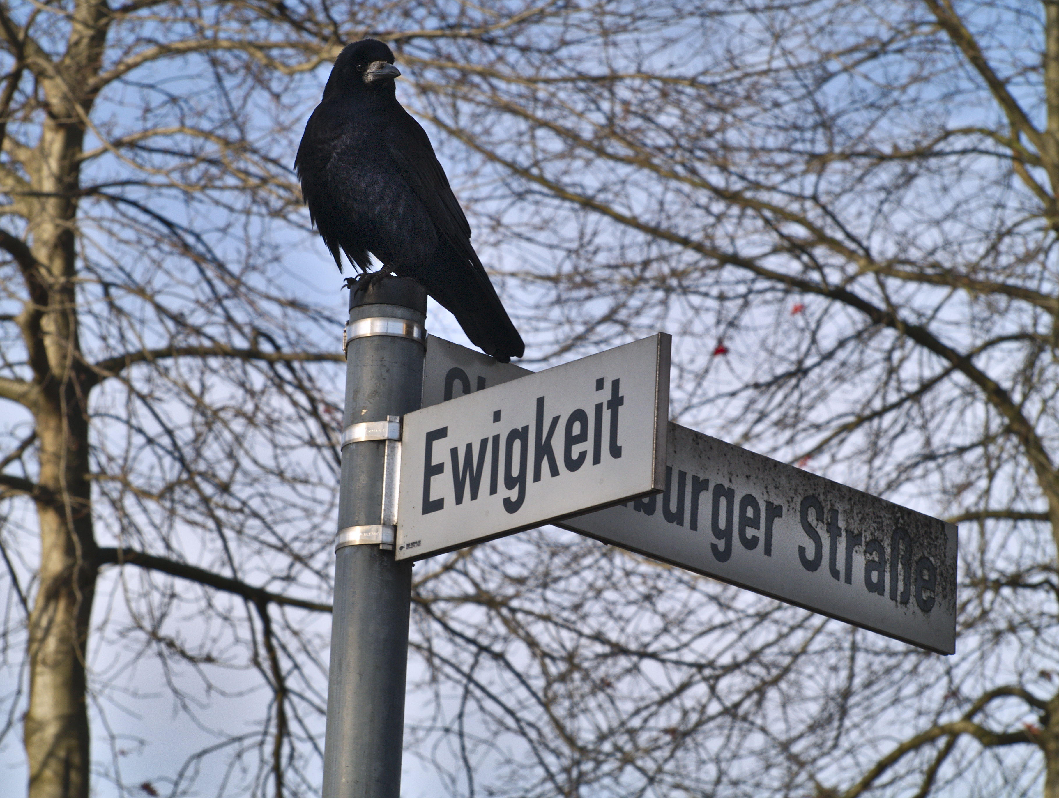 An adult rook (Corvus frugilegus) on a street sign post (corner Ewigkeit ↔ Cloppenburger Straße) in Oldenburg, Germany, in late fall. "Ewigkeit" literally means "eternity".